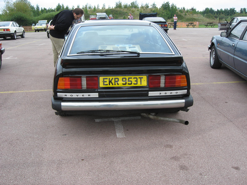 Rover sd1 club day at the British motoring heritage museum gaydon .modded mk1